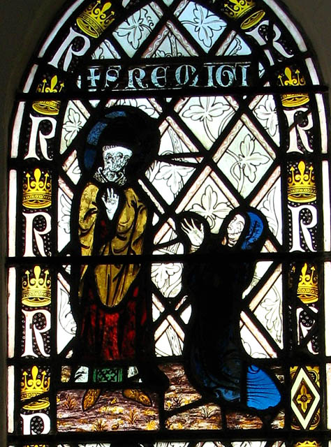 Part of a window in the parish church of St Remigius, Dunston, Norfolk, showing early 14th-century stained glass representing Lady Margery de Creke, who at the time held the patronage of the parish and was Prioress of Flixton, kneeling before St Remigius